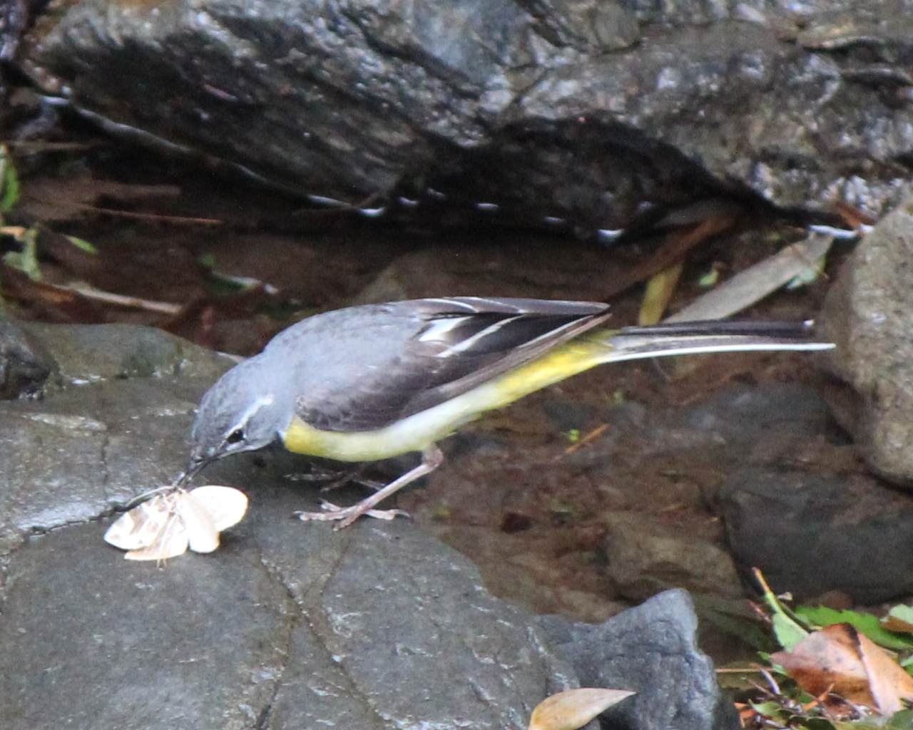 Motacilla cinerea Tunstall, 1771) (Grey Wagtail), male eating moth, in Hase river around Mount Ibuki, Ibigawa, Gifu prefecture, Japan.